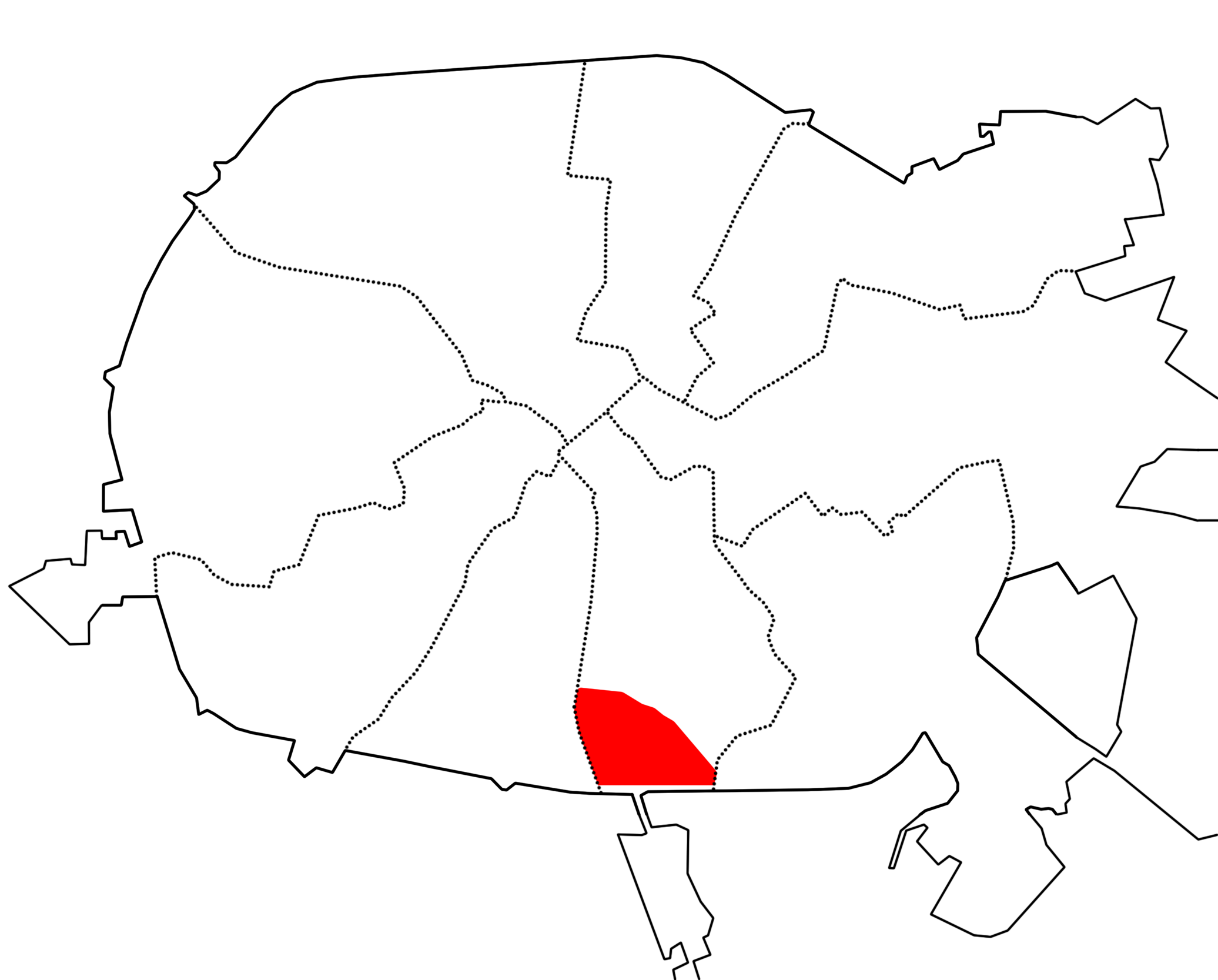 Lošyca (Loshitsha) microdistrict in Minsk, Belarus